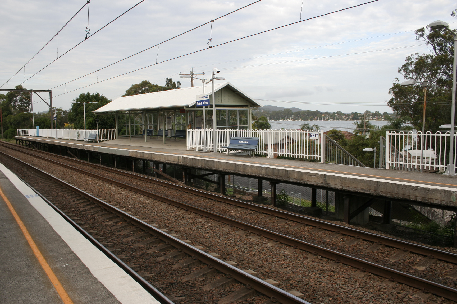 Point Clare railway station